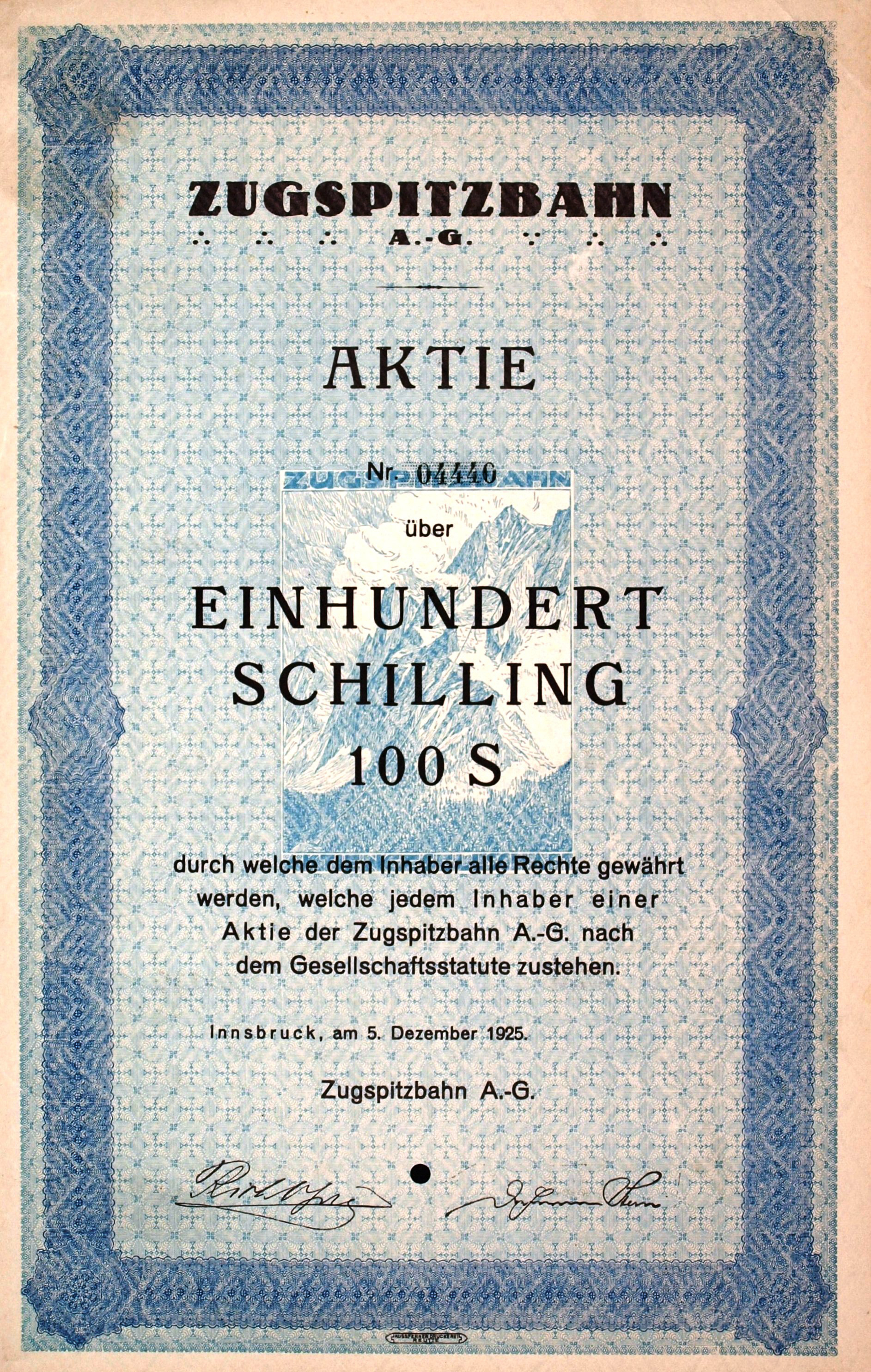 Share of the Zugspitzbahn AG, issued 5. December 1925